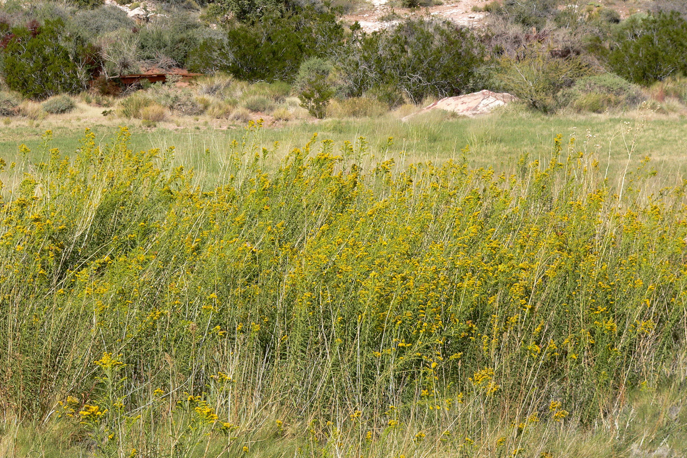 Solidago spectabilis at Red Spring, Calico Basin, Red Rock Canyon, southern Nevada